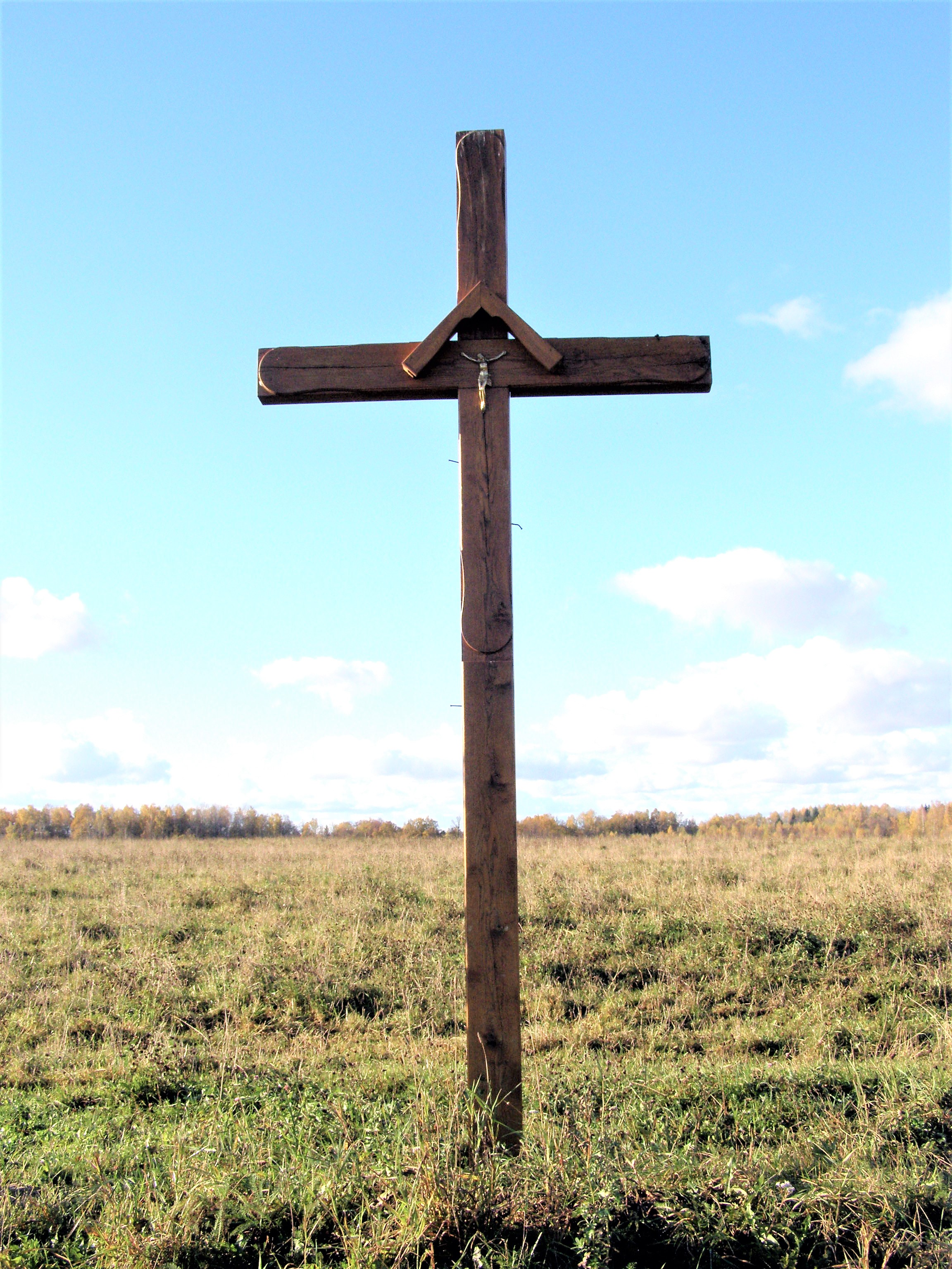 Lubiai monument to the partizans, Kretinga district, LithuaniaLietuvių: Lubių partizanų atminimo vieta, Kretingos rajonas, Lietuva